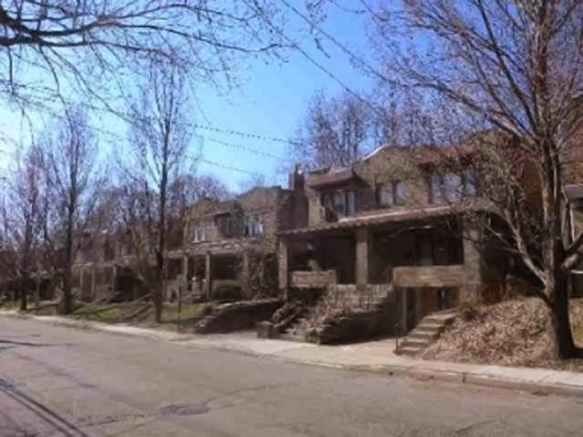 Looking south across Shady Drive East at brick houses on a sunny morning.